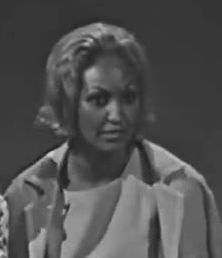 Elvira Banotti nel programma "L'ora della verità" di Gianni Bisiach nella quale veniva intervistato Indro Montanelli che raccontava come avesse comprato (razzismo) nel 1935 una ragazzina Eritrea di 12 anni. Elvira Banotti intervenne umiliandolo fino all'interruzione della trasmissione Elvira Banotti in Gianni Bisiach's "Hour of Truth" program in which Indro Montanelli was interviewed, who told how he had bought a 12 year old Eritrean girl in 1935. Elvira Banotti intervened humiliating him until the interruption of the TV show